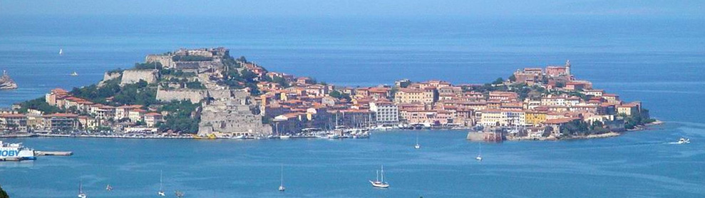 A view of Portoferraio.